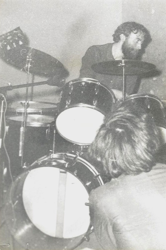 gilbert artman drums